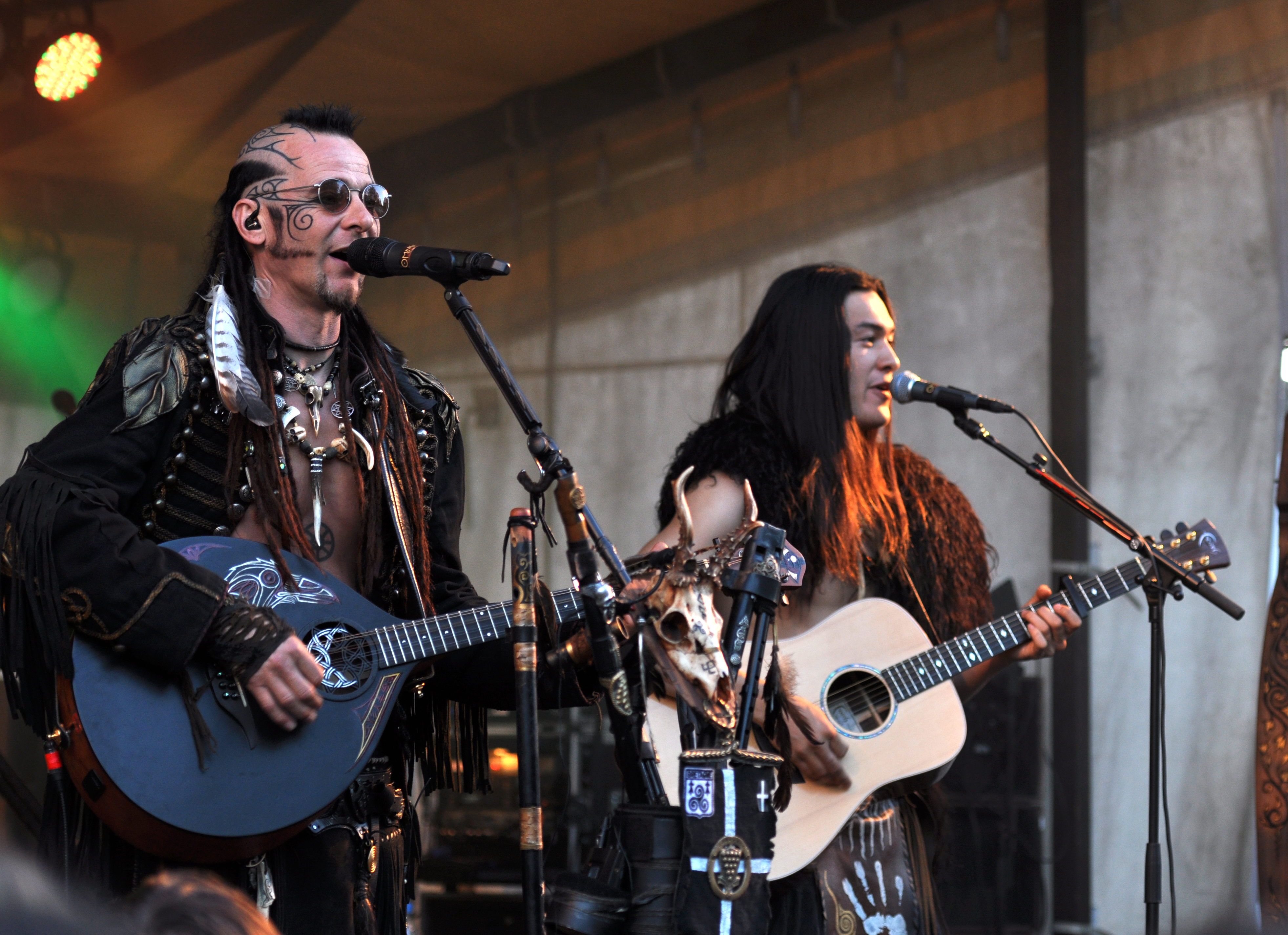 Omnia at medieval event Mittelalterlich Phantasie Spectaculum in Wassenberg, Germany, 2014